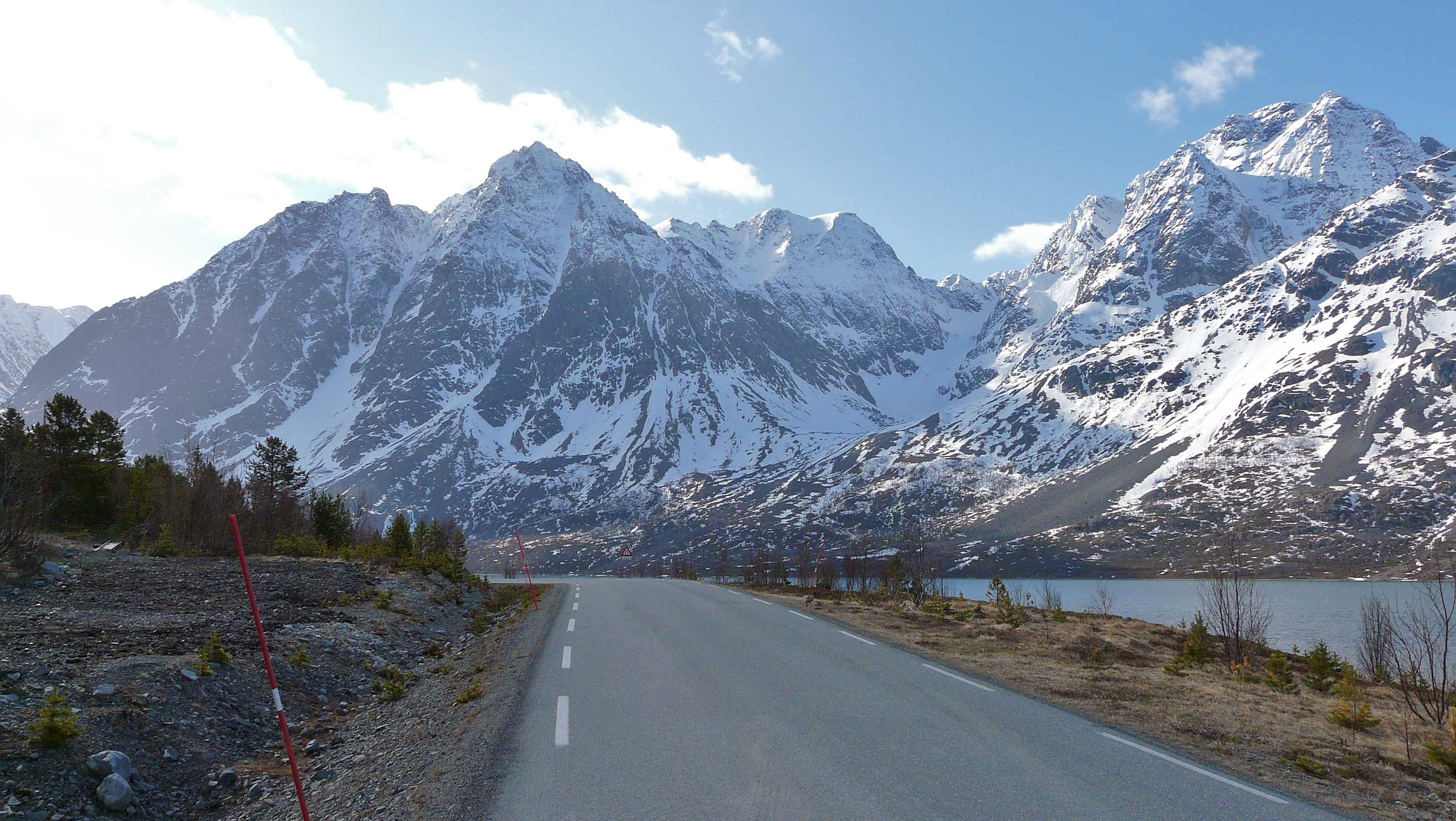 Riksvei 91 (or Riksveg 91) along the Kjosen fjord leading to Lyngseidet in 2009 May. The mountains on the background are Forholtfjellet (Forholttinden, 1,469 m) and Fornesfjellet (Store Fornestinden, 1,477 m).